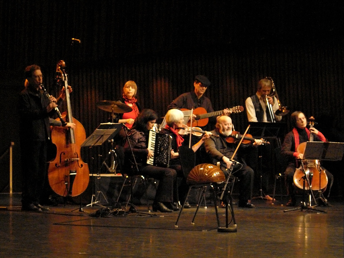 KlezMischpoche at the ceremony for the conferment of the Carl von Ossietzky Medall 2008.